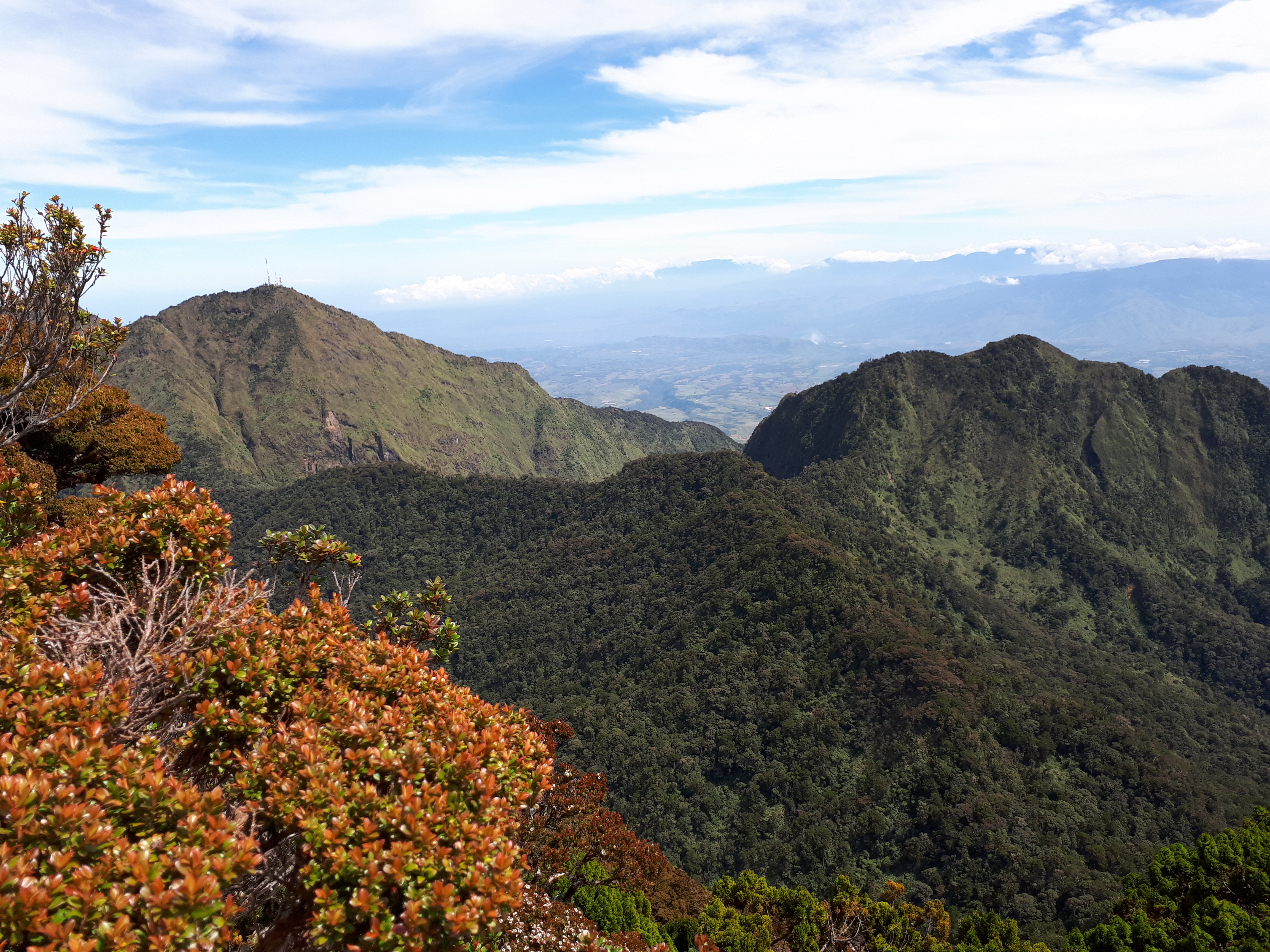 Mt. Kitanglad (leftside) as seen from the summit of Mt. Dulang-dulang